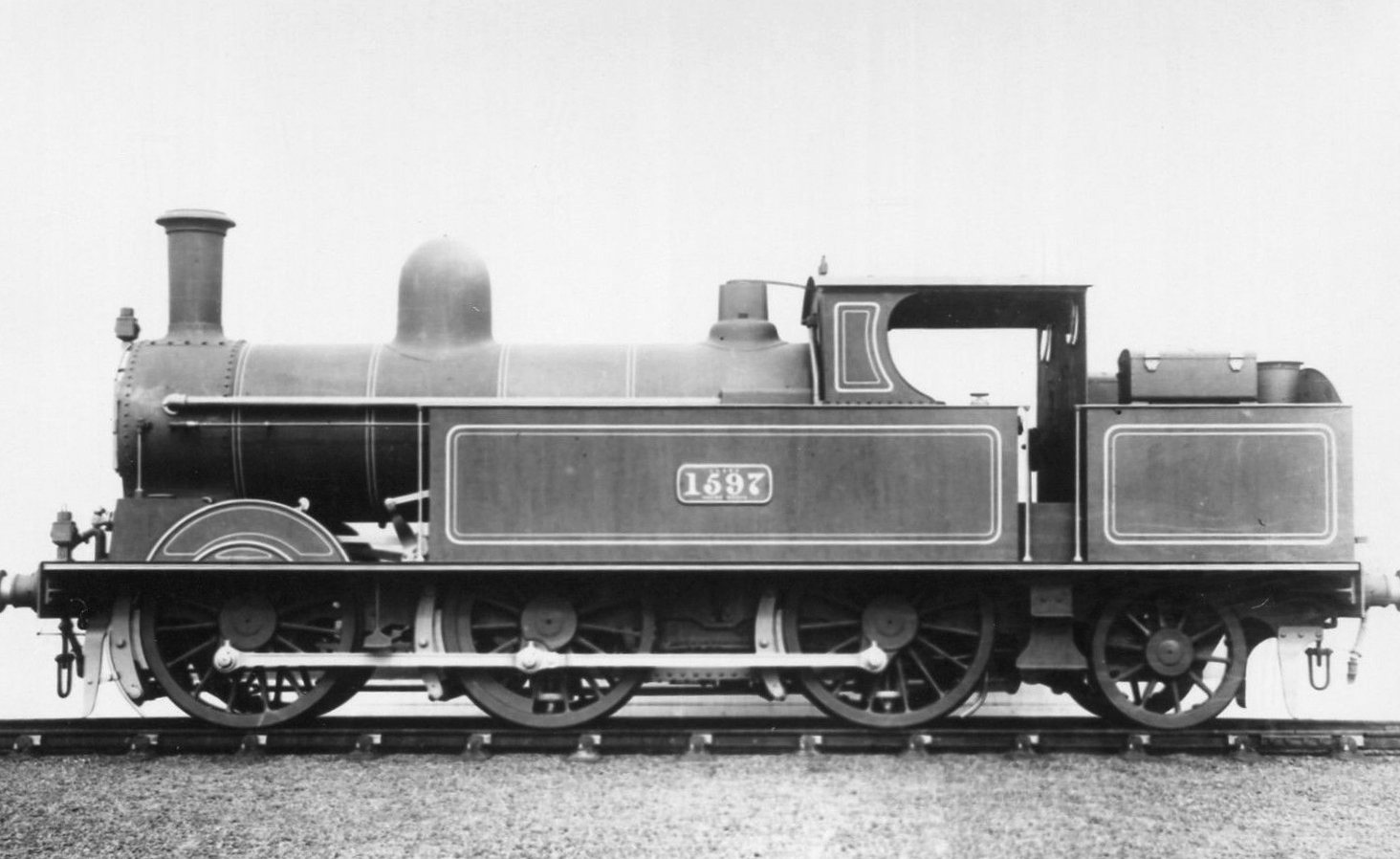 Photograph of LNWR engine No. 1597, 5ft 3in Tank